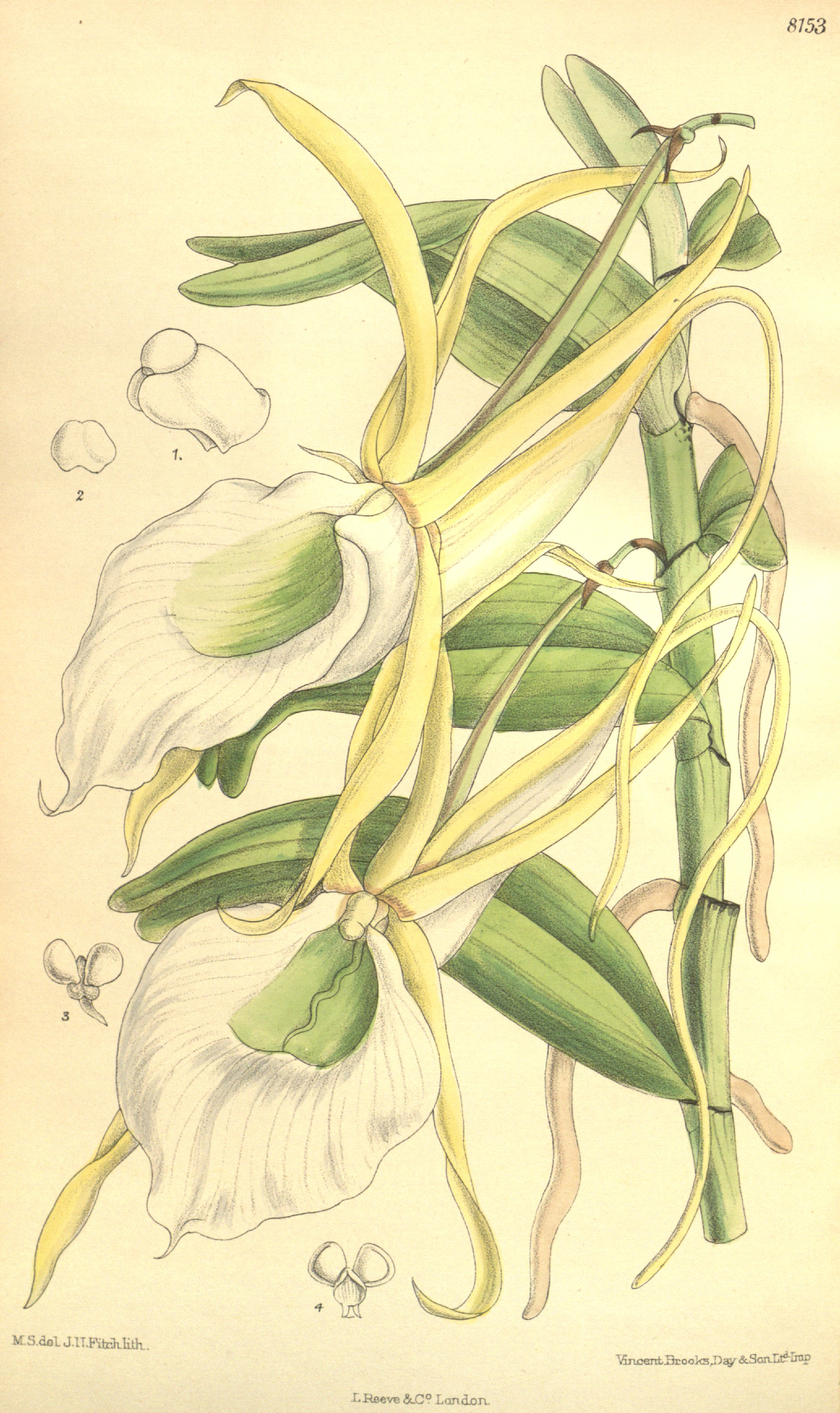 Illustration of Angraecum infundibulare